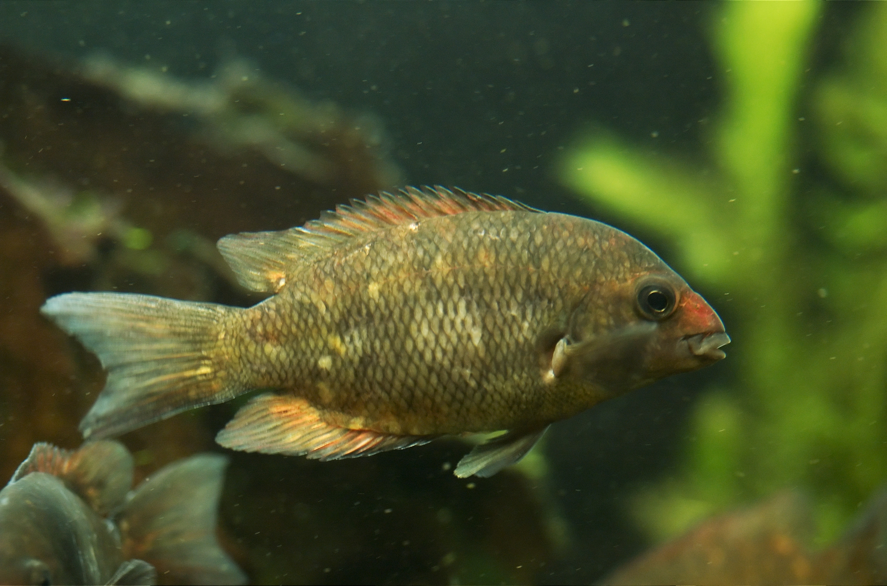 Kotsovato